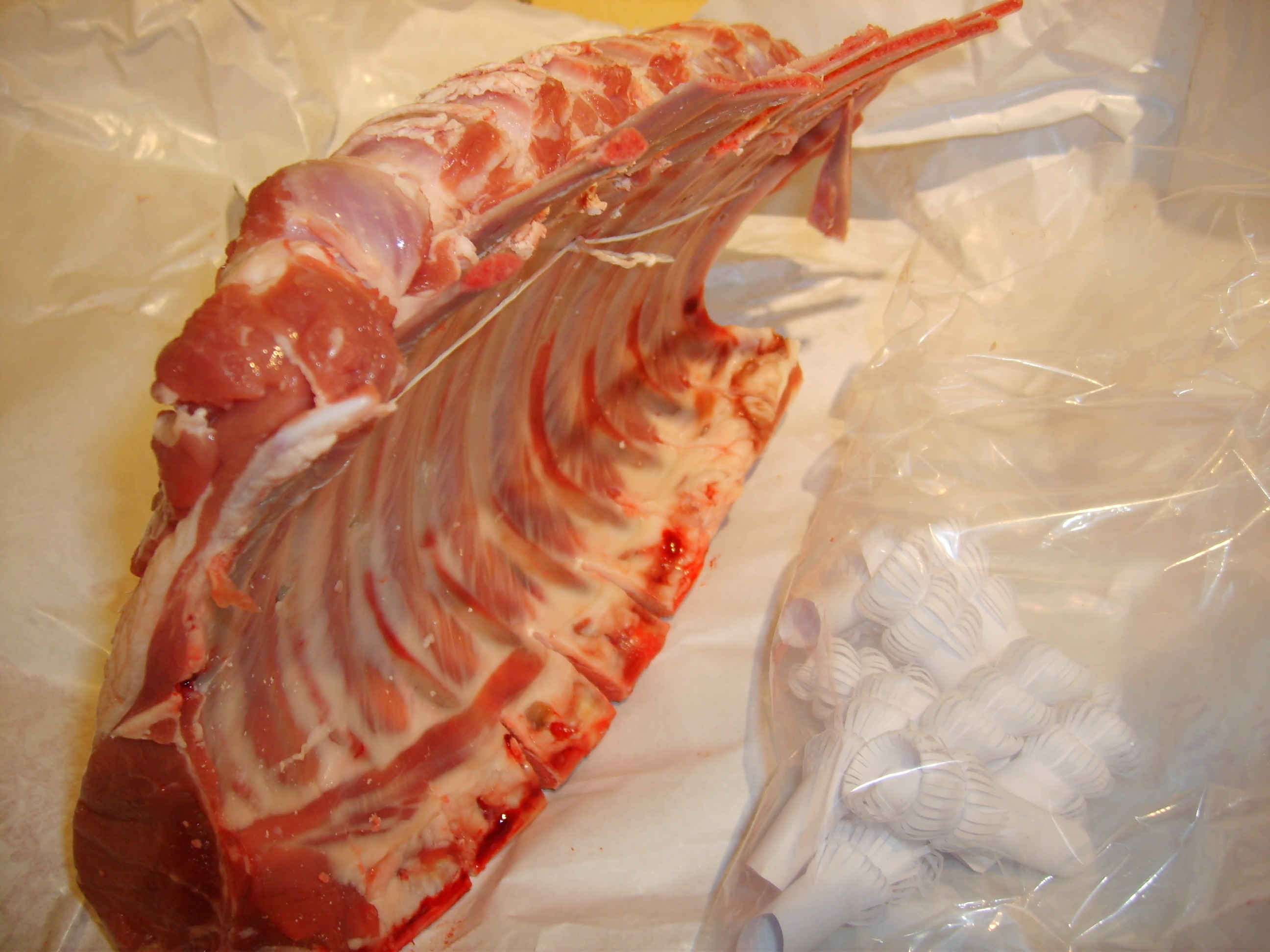 Rack of lamb. Publish by= User:Stephane8888 Self made